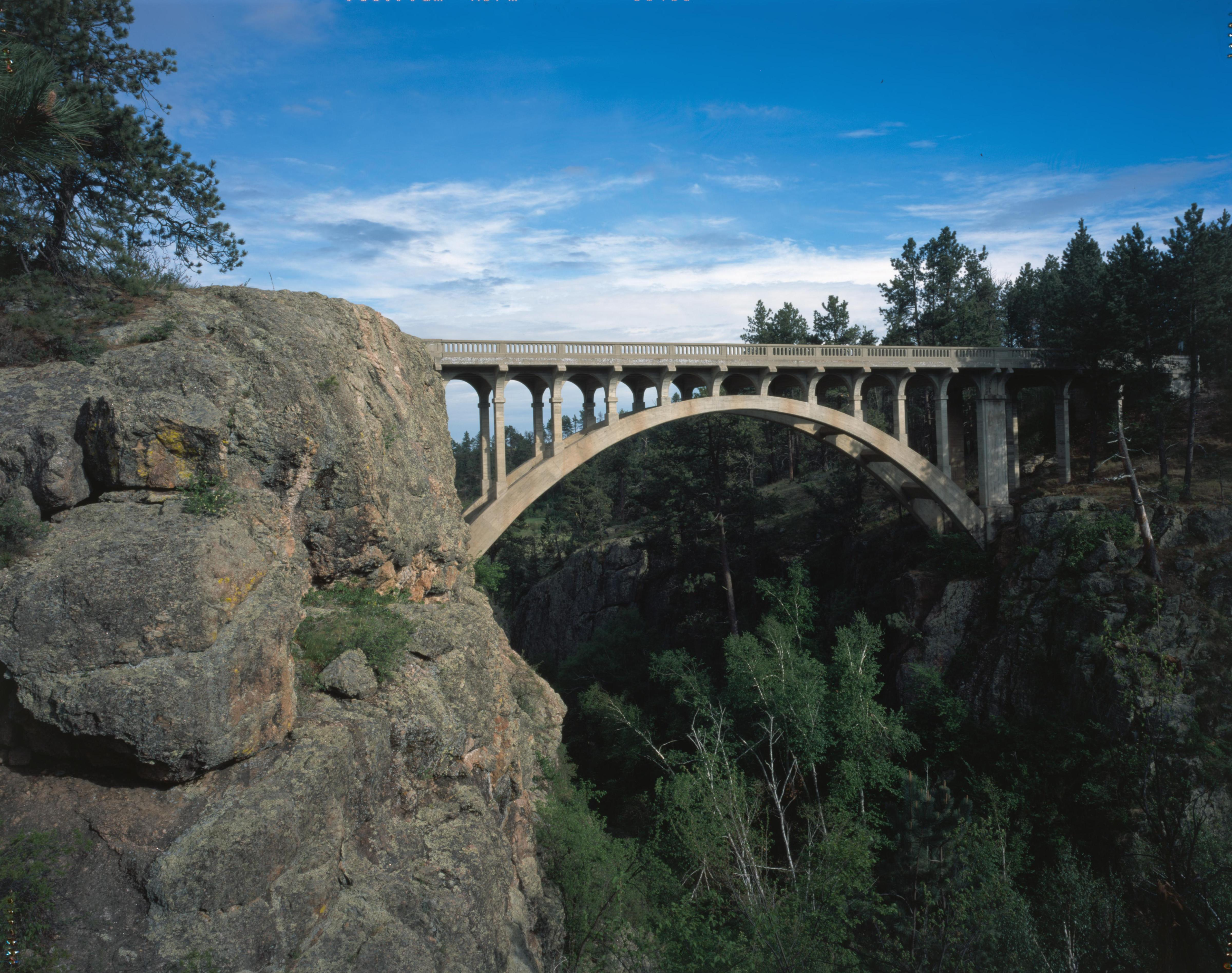 Eastern (downstream) side of the Beaver Creek Bridge, which carries Highway 87 over Beaver Creek near Hot Springs in Custer County, South Dakota, United States. Built in 1929 in the present boundaries of Wind Cave National Park, the bridge is listed on the National Register of Historic Places.